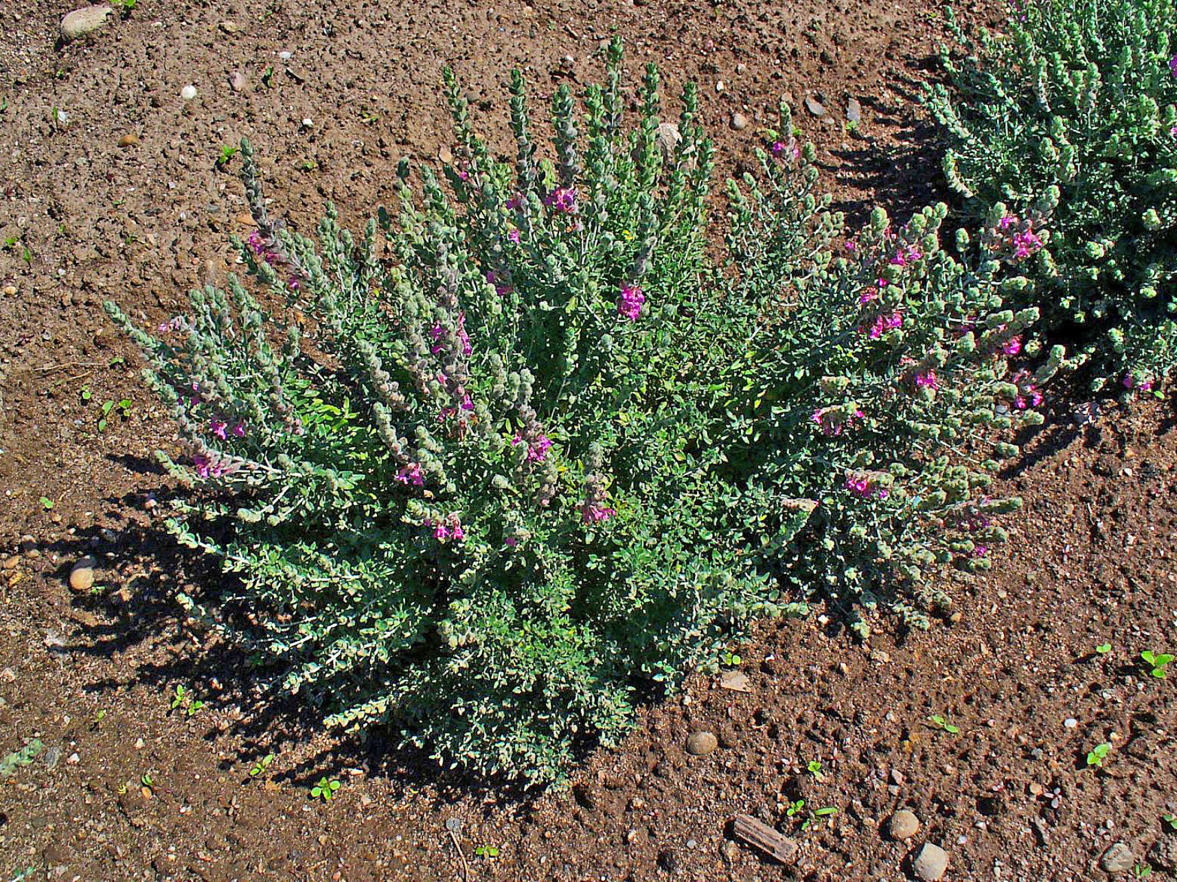 Teucrium marum, Lamiaceae, Cat Thyme, habitus.